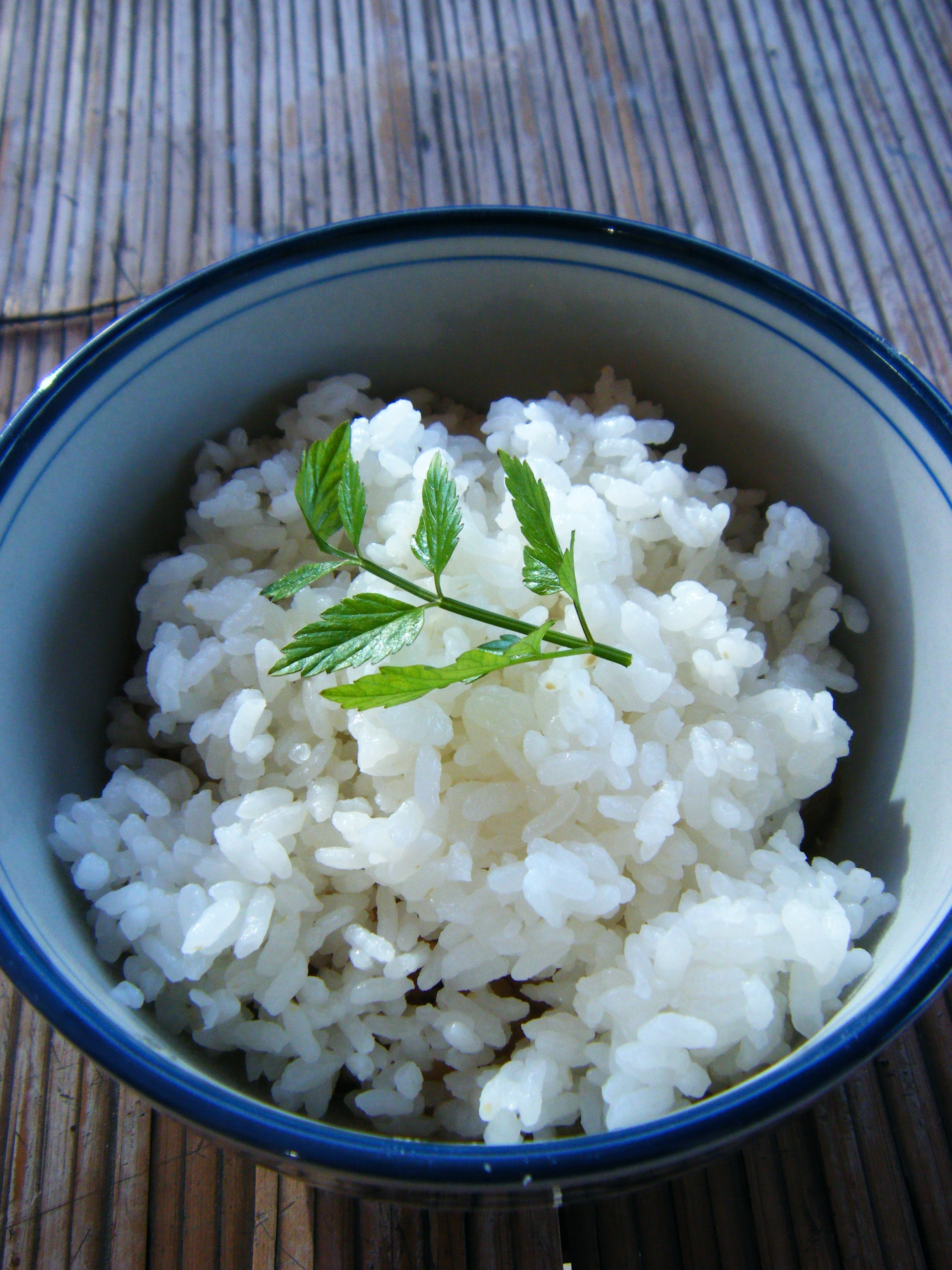 Uzume meshi is traditional cuisine in Hikimi town which uses wasabi. "Uzume" means "hiding something" and "meshi" means "bowll of rice" in Japanese. Wasabi must be hidden with originally dish.